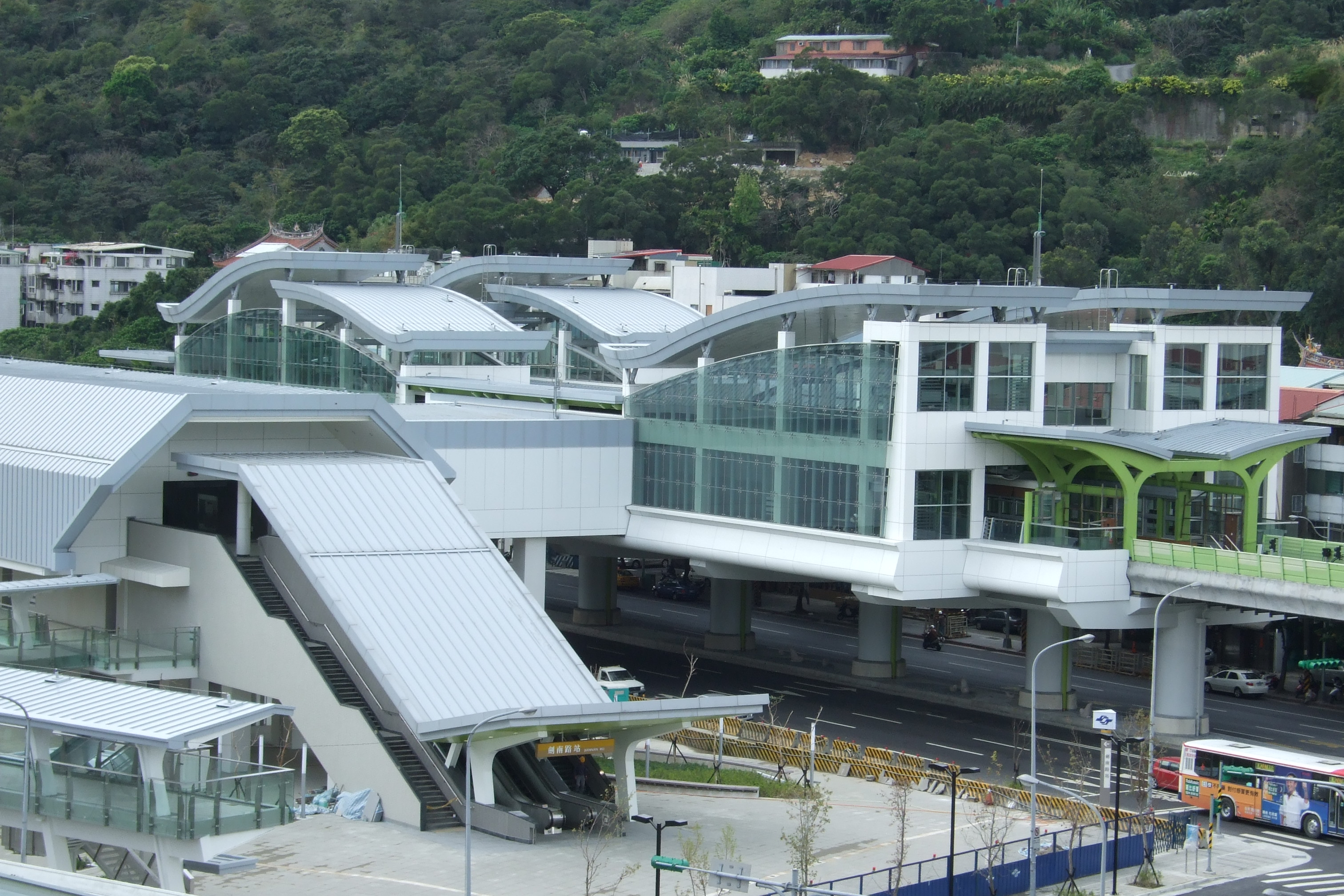 Taipei MRT Jiannan Road Station, under construction.